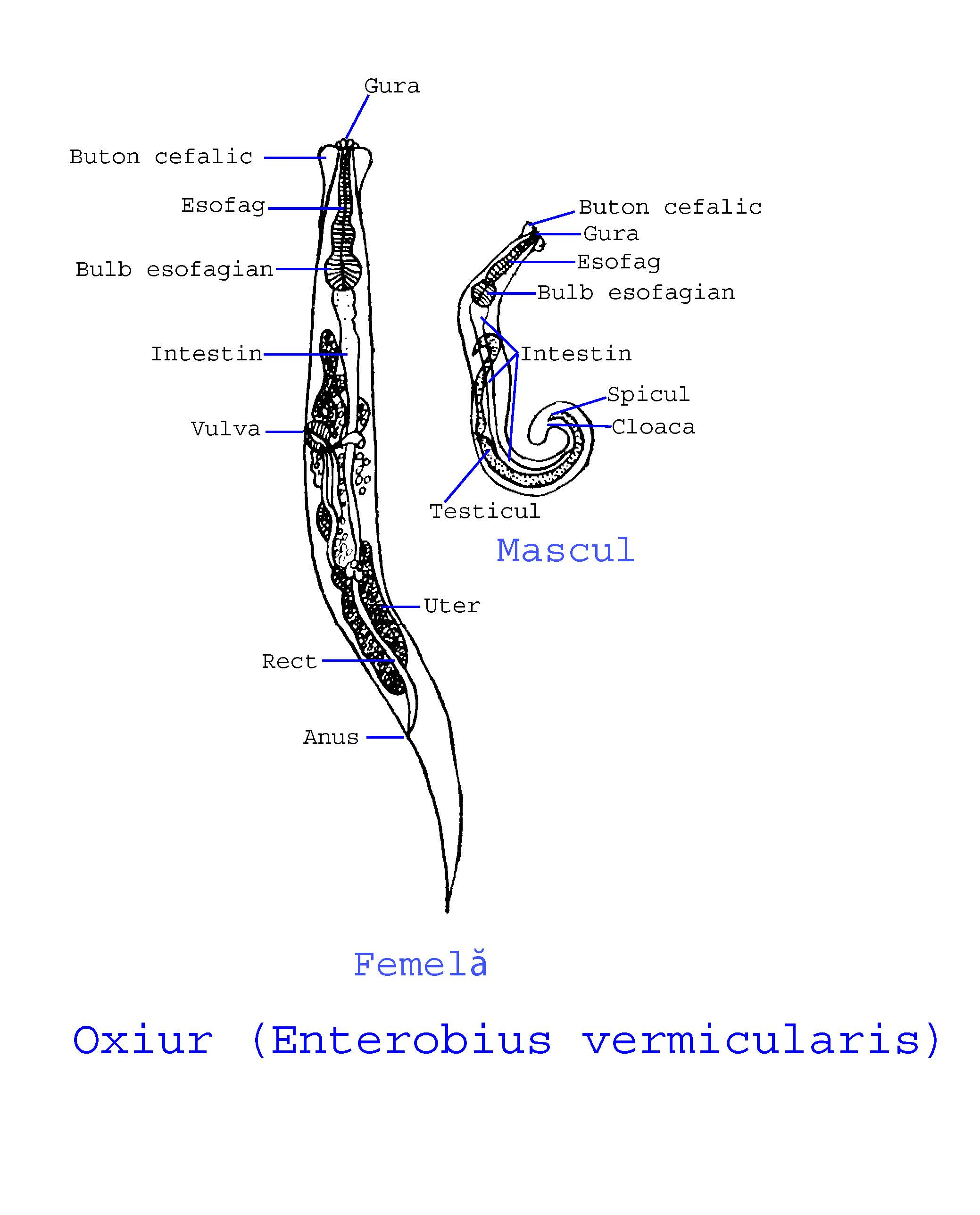 Enterobius vermicularis